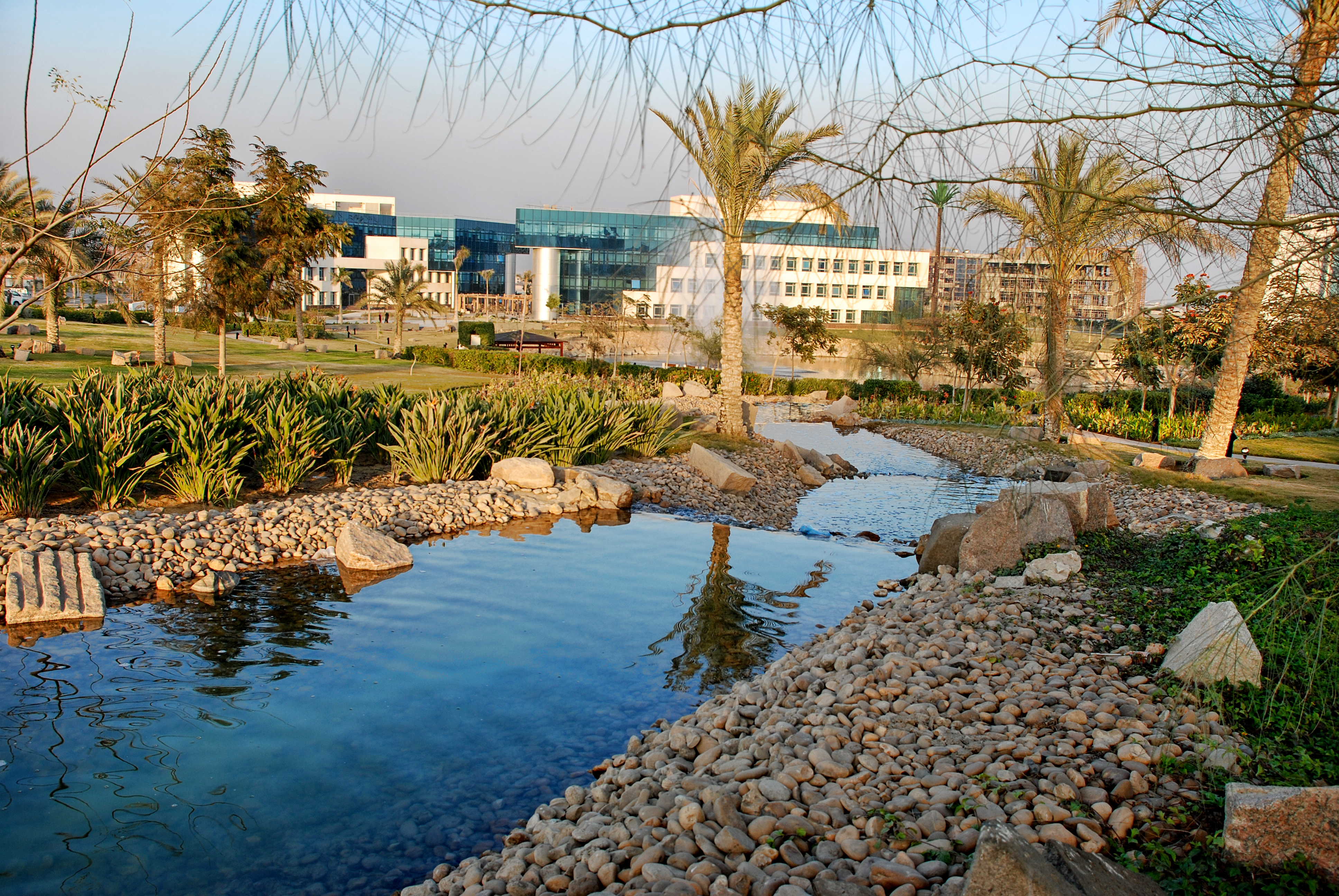 Landscape